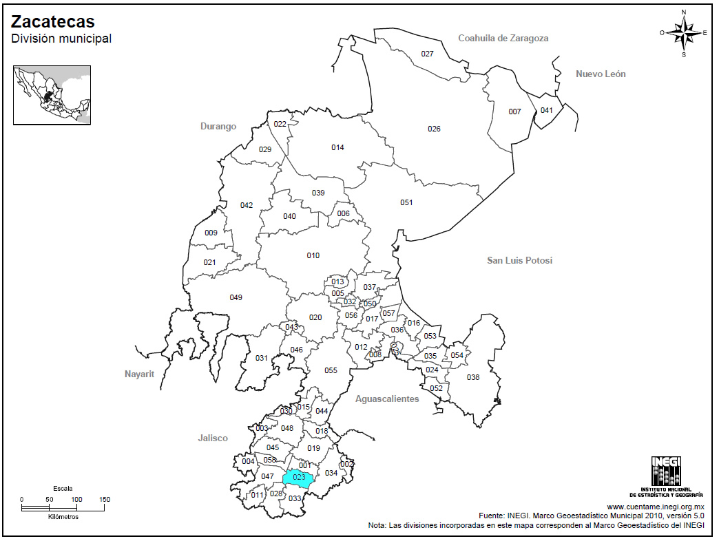 División política del estado de Zacatecas